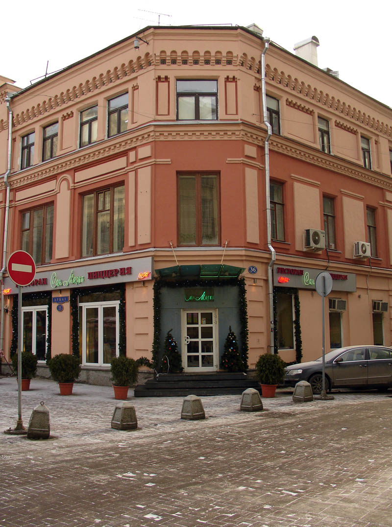 Arbat Street, Moscow. Unusually few people - between New Year and (orthodox) Christmas the city looks deserted.